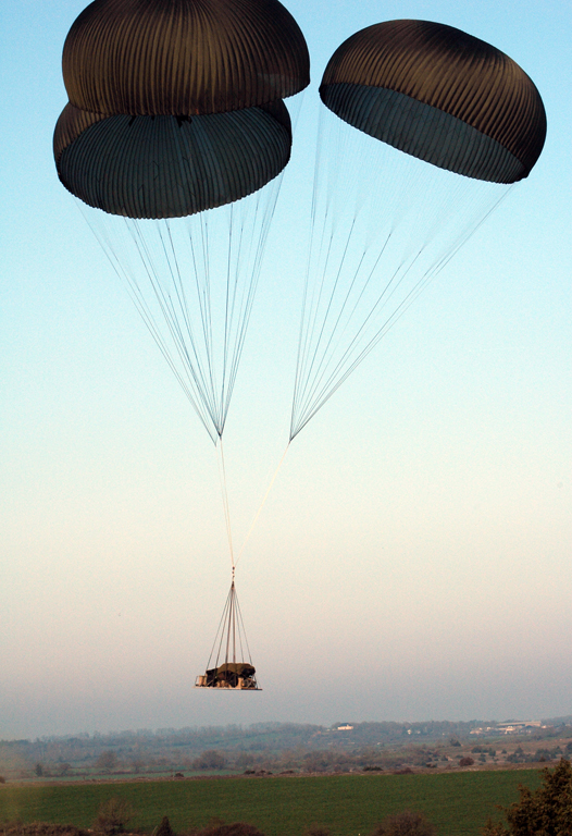 Light Armoured Vehicle being air-dropped.